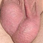 Human Scrotum 2